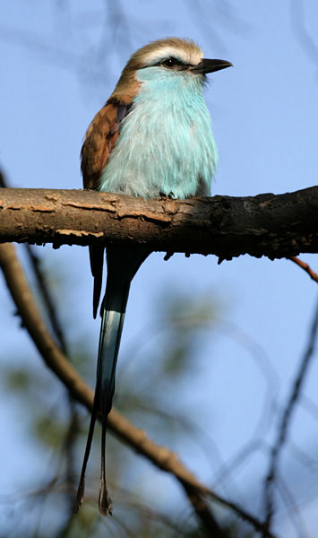 Racket-tailed Roller, Coracias spatulata. Location: Jacksonville Zoo, Jacksonville Florida, United States.